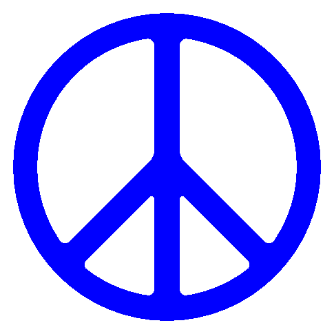 Peace Emblem, Blue